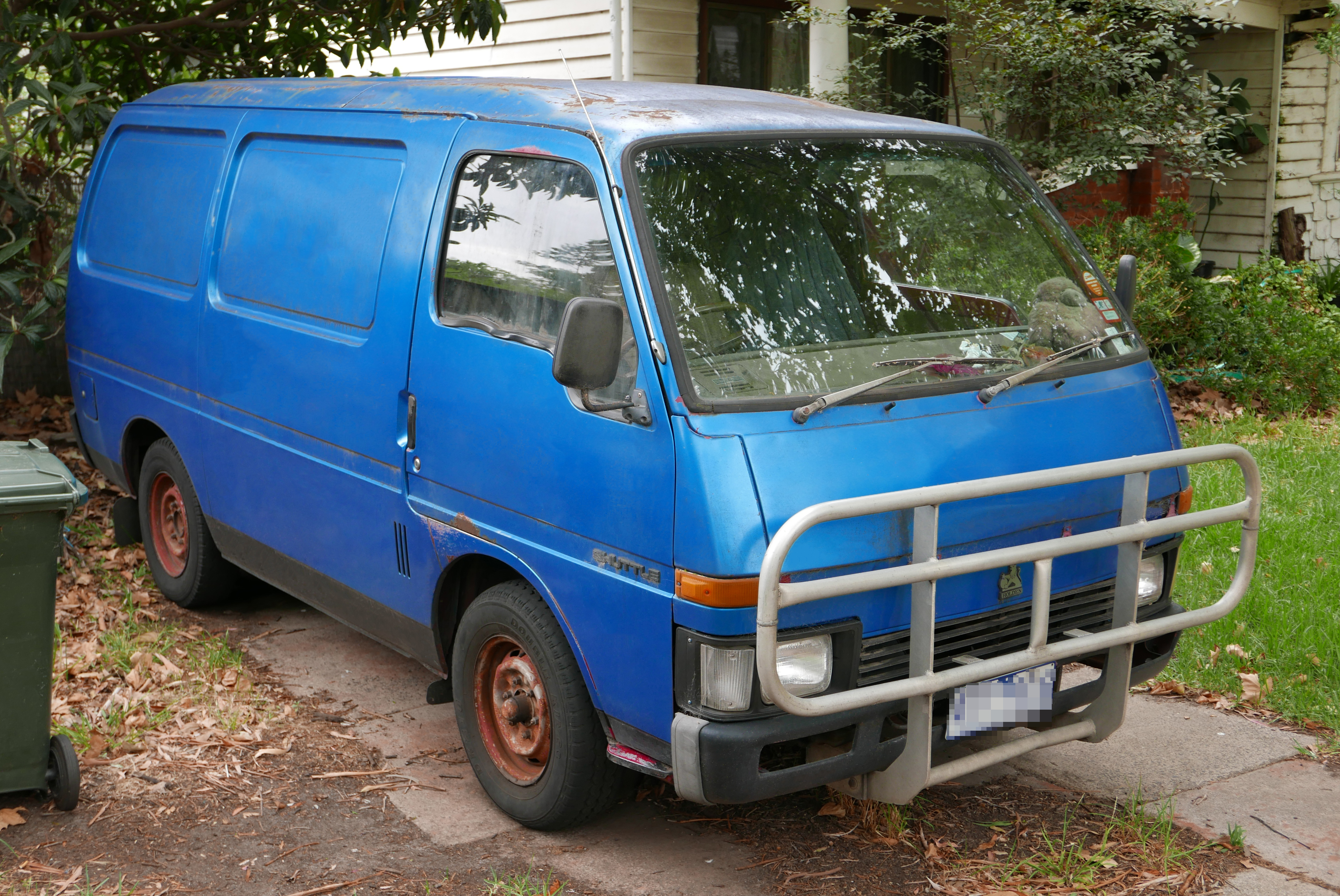 1985 Holden Shuttle (WFR) 1.8 SWB van. Photographed in Coburg, Victoria, Australia. Vehicle registration enquiry results Jurisdiction Victoria Registration QTT426 Chassis code JAAWFR111F4315222 Engine code 100708 Compliance date 1985-05 Year of manufacture 1985